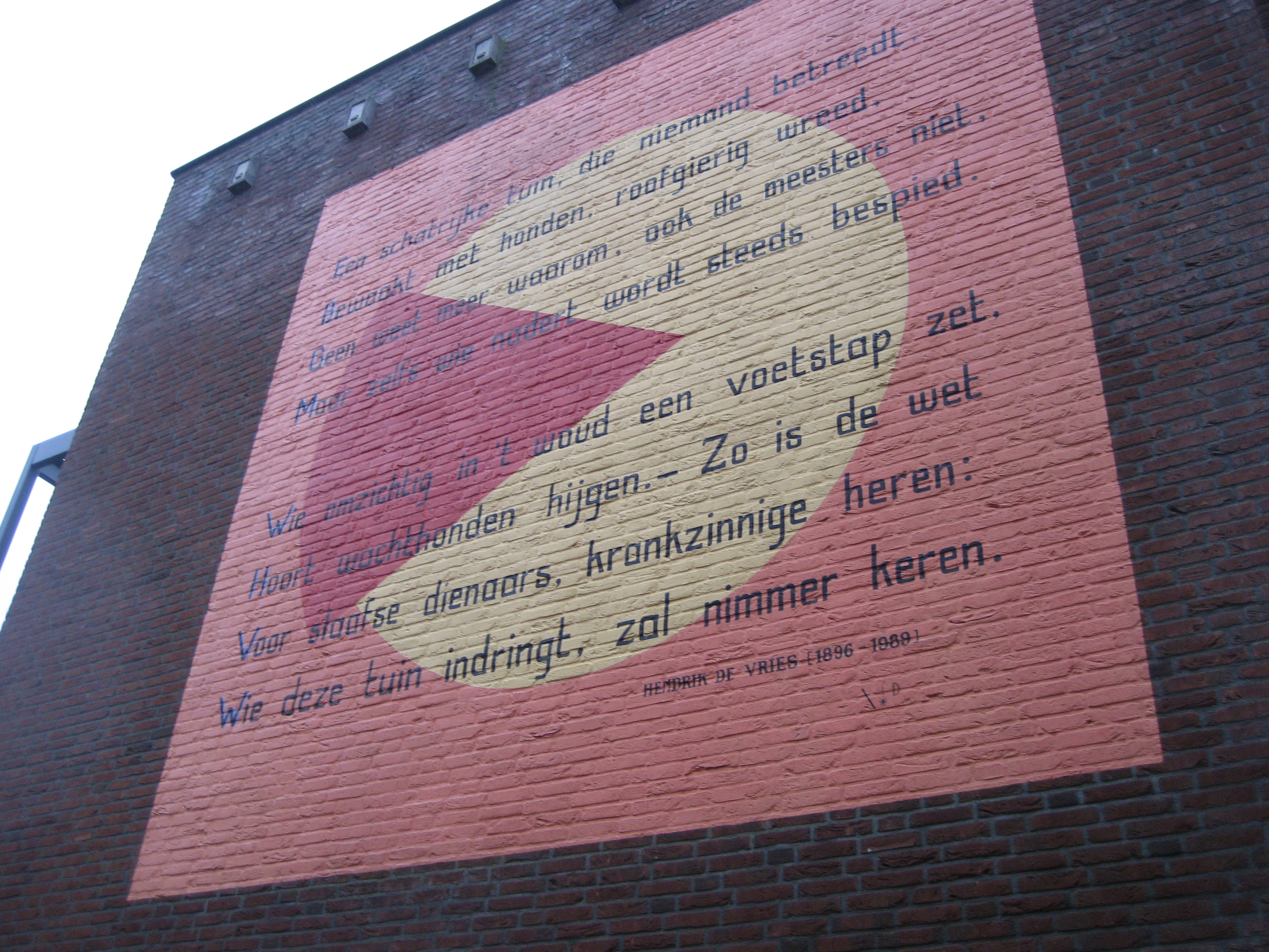 Hendrik de Vries: Een schatrijke tuin. Wall poem in Leiden / Muurgedicht in Lieden